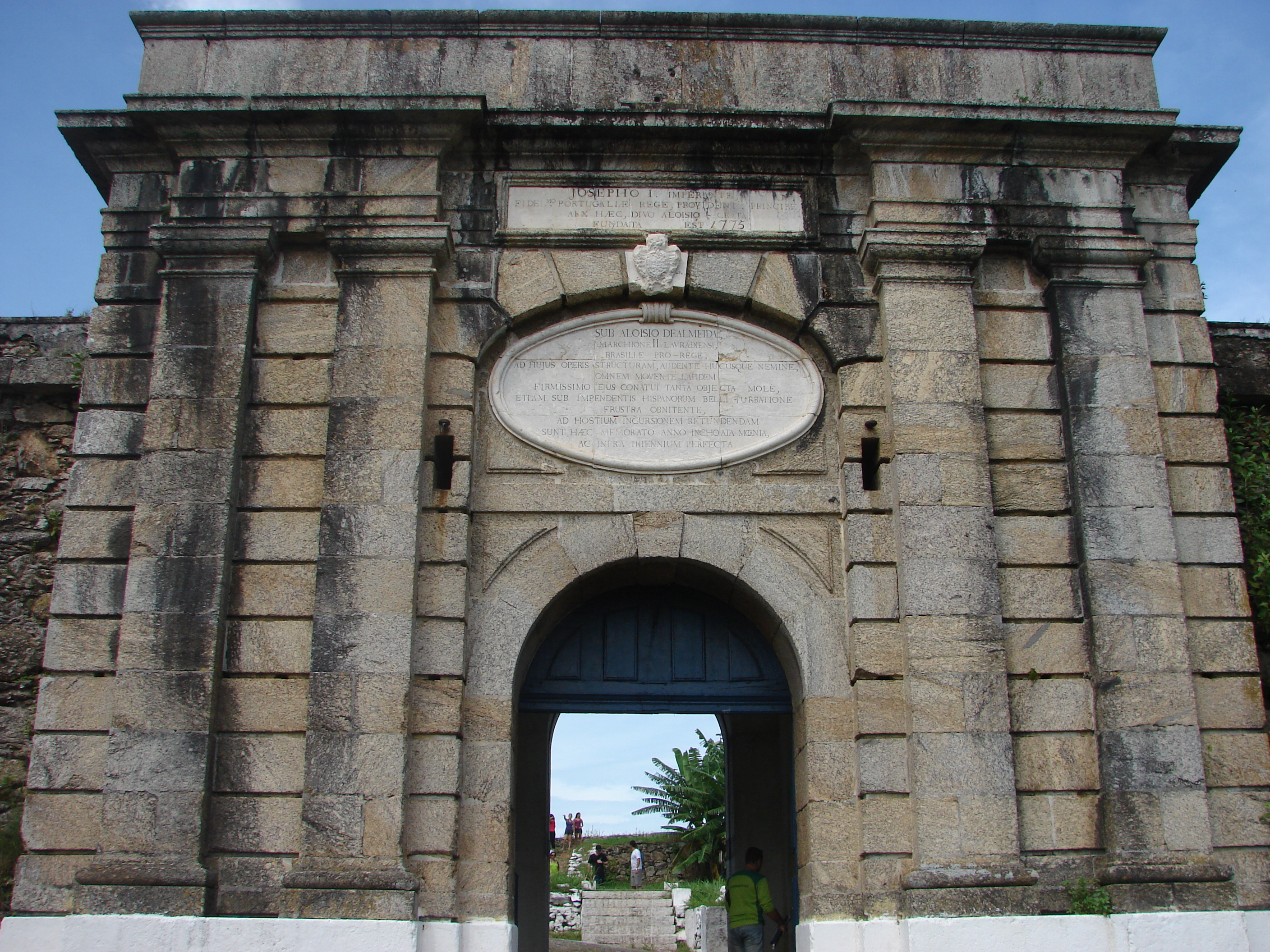 Main entrance of the São Luiz fort in Niterói, Brazil